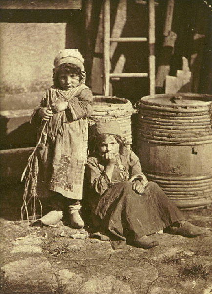 Two Country Children. Albumen print, 13 3/4 x 10 3/16 in. (35 x 25.8 cm).